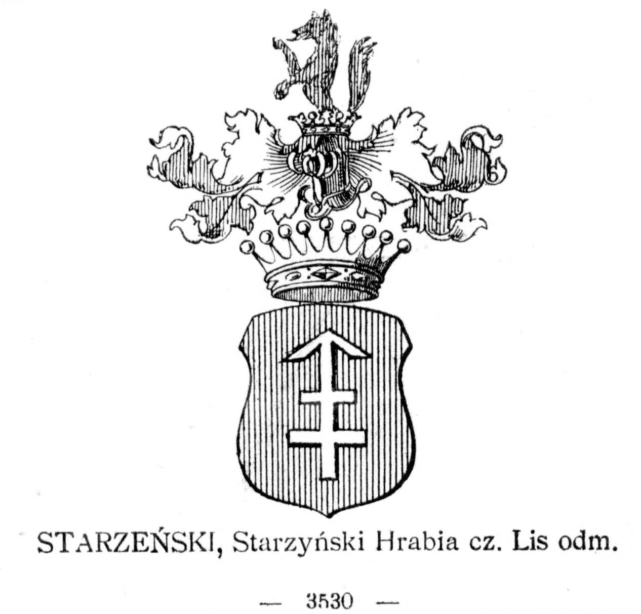 coat of arms